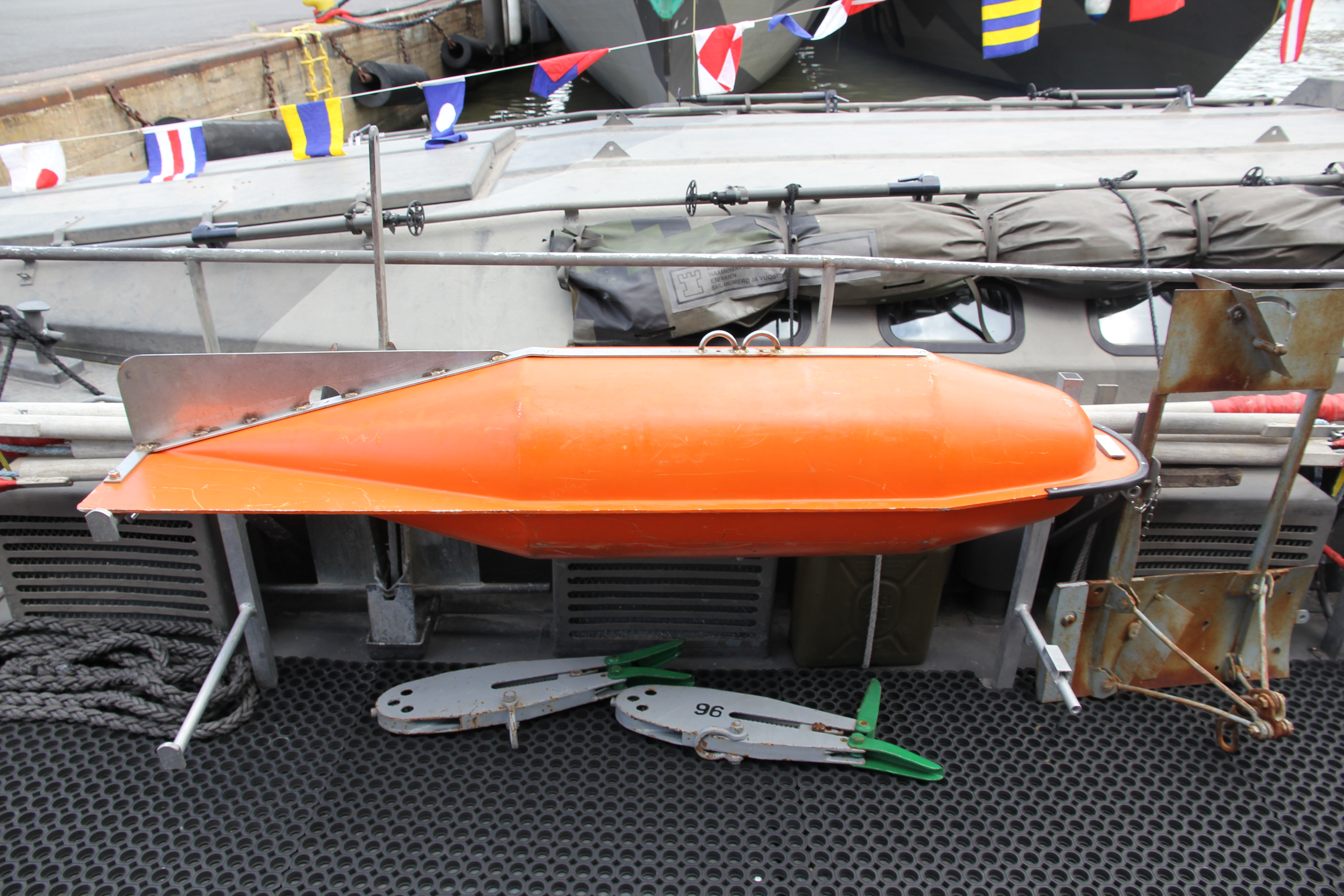 Minesweeper Kiiski 7 in Aura river in Turku during Finnish Navy 2014 anniversary. Paravane?